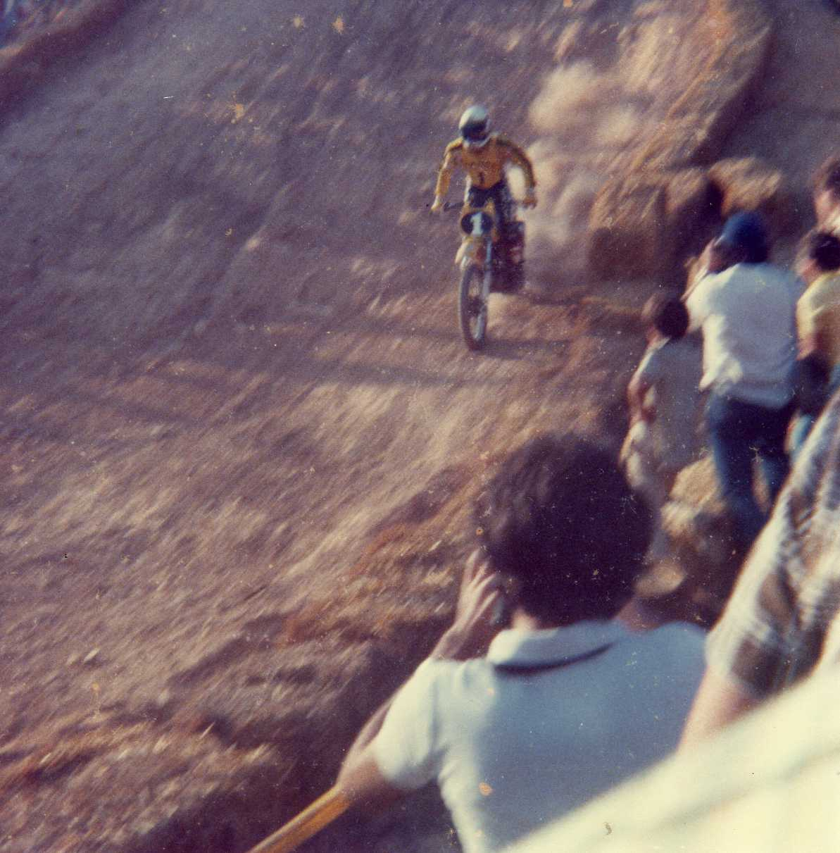 Gaston Rahier with his Suzuki at Circuit del Cluet, Montgai (Catalonia), during the 1978 spanish MX GP 125cc.